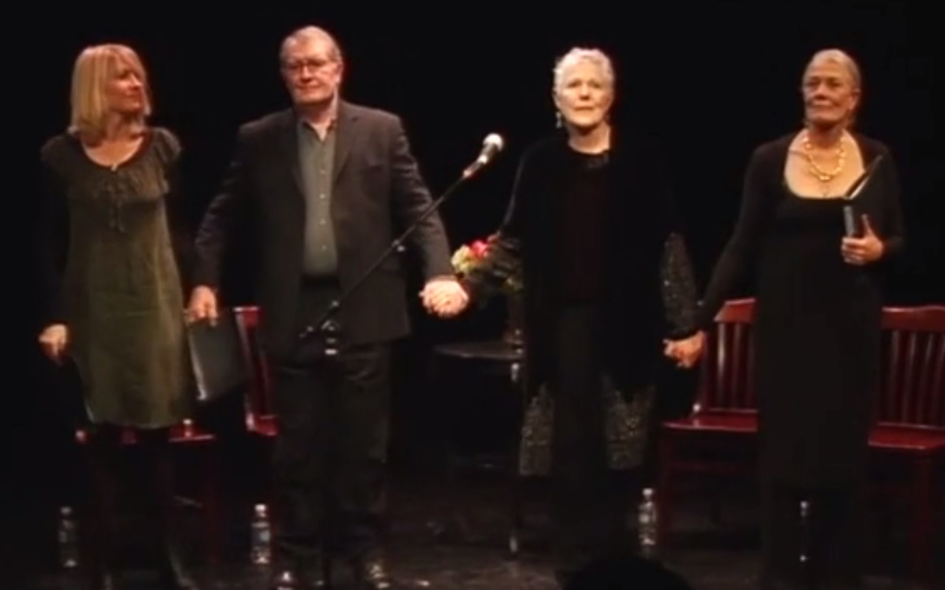 Left to right, Jemma, Corin, Lynn, and Vanessa Redgrave, English actors, holding hands to bow in unison after reading Poems from Guantánamo: The Detainees Speak (poems written by detainees at Guantanamo Bay, Cuba) at the Center for Constitutional Rights in New York City. Filmed by the Culture Project, New York City, on December 9, 2007. Published on Vimeo September 9, 2011.